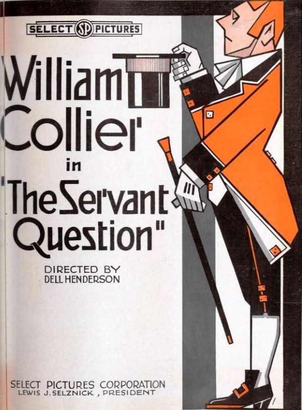 Advertisement for the American comedy mystery film The Servant Question (1920), from the insert after page 18 of the June 5, 1920 Exhibitors Herald.